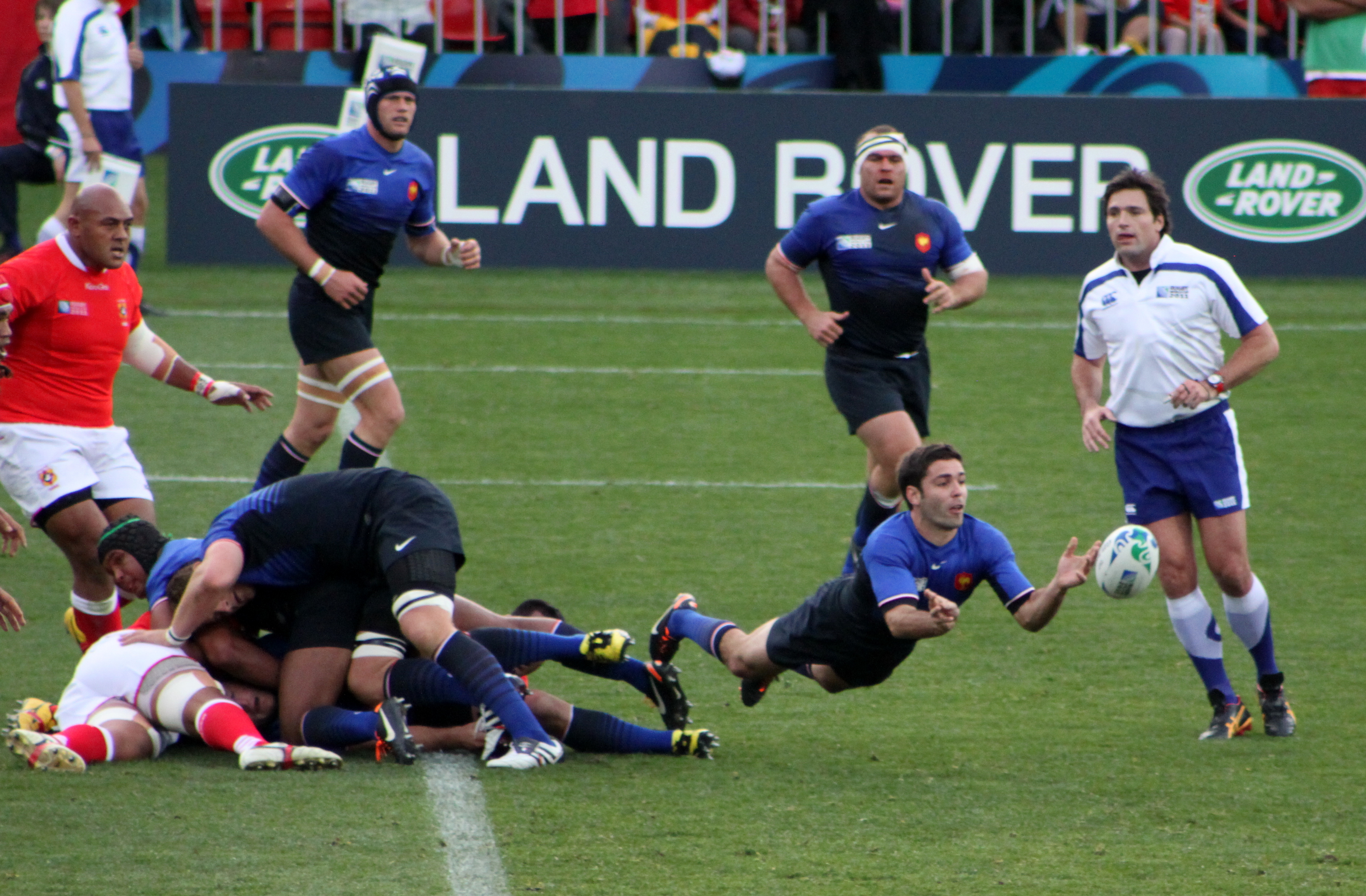 Match between France and Tonga during 2011 Rugby World Cup in New Zealand.